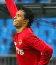 Dudu Cearense, Brazilian footballer.